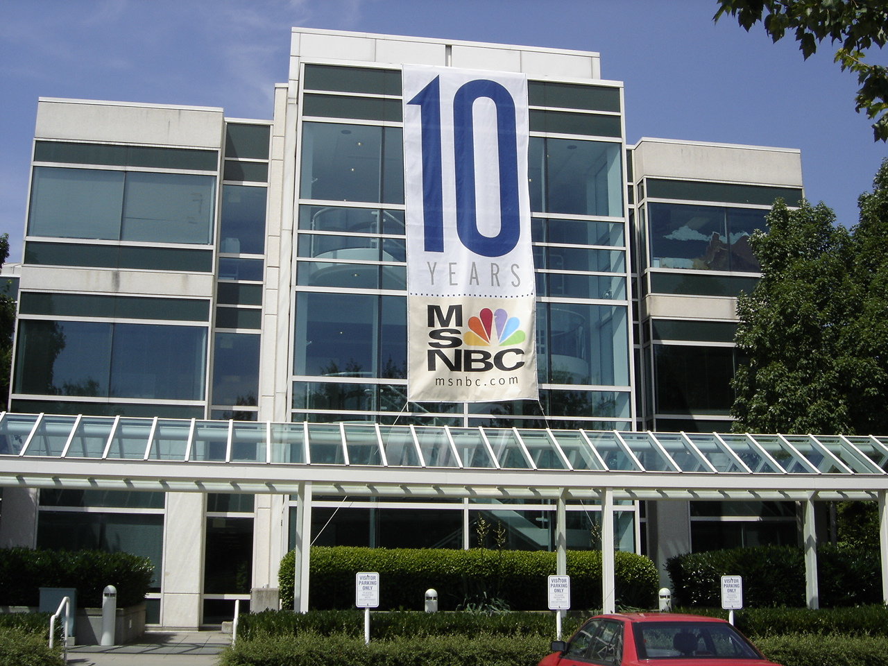 Turns Turns 10